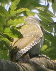 One of a 4-6 woodpeckers (a family) that were flying and calling in a patch of wood near Fürstenfeldbruck in Bavaria